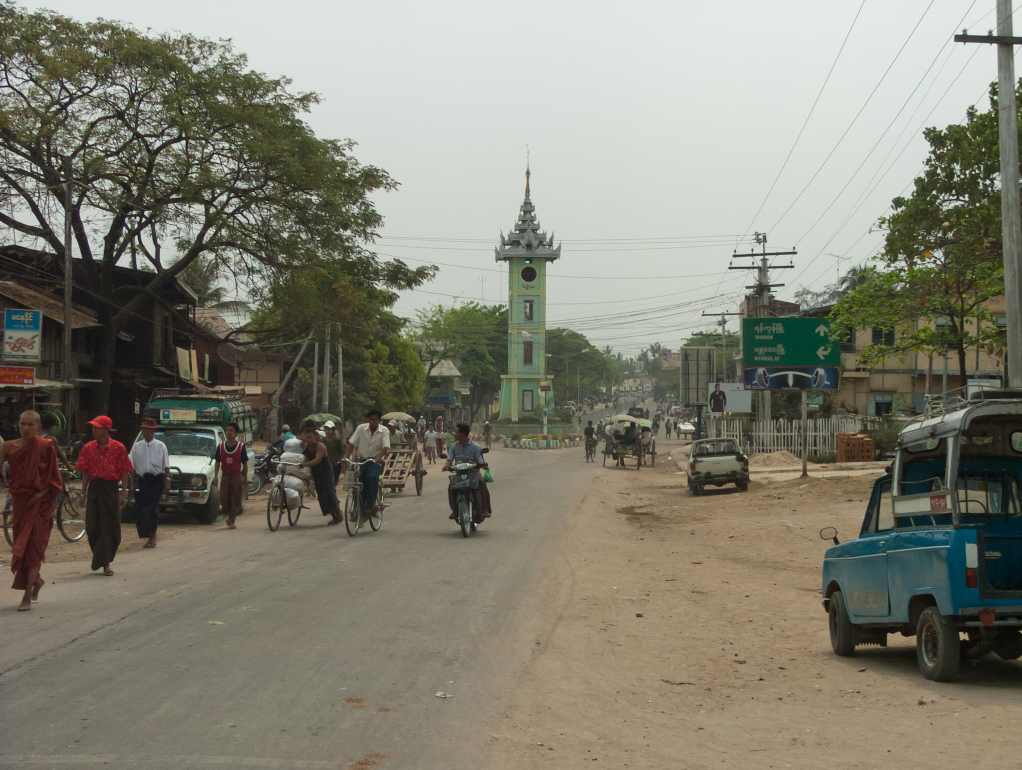 Street view at Meiktila